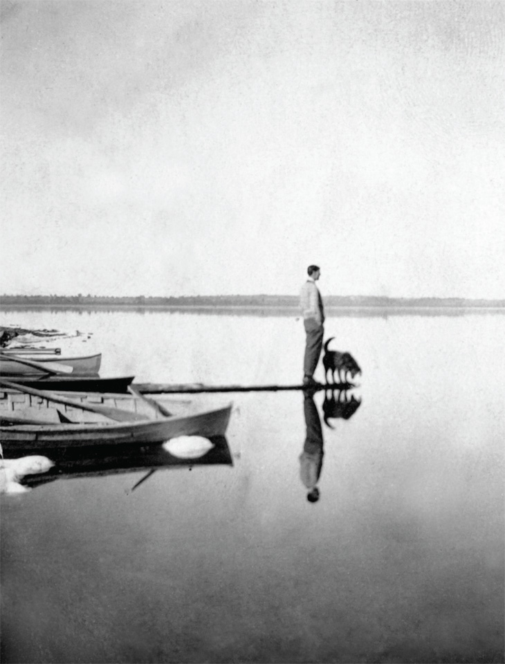 Photograph of Tom Thomson at Lake Scugog